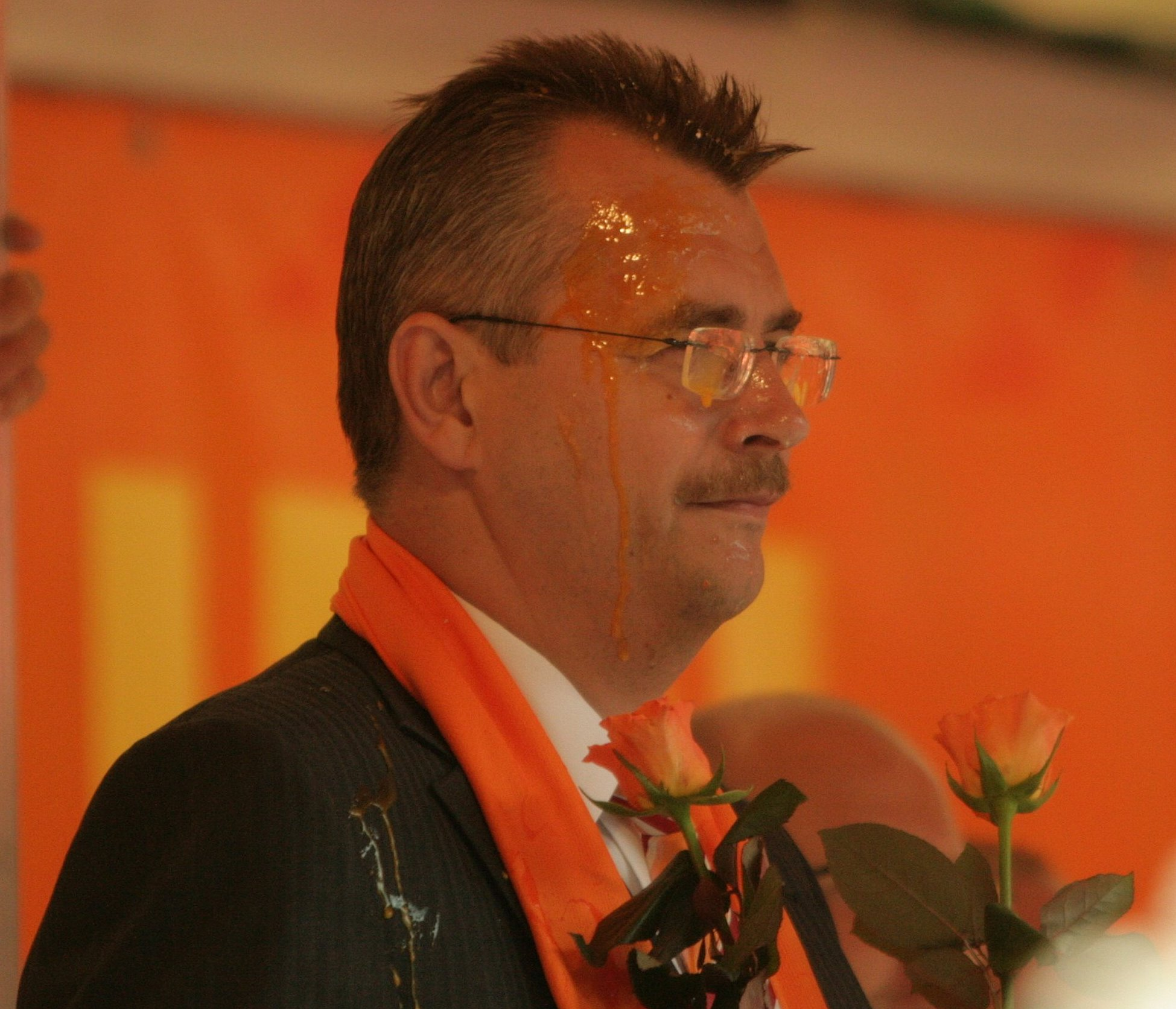 Jaroslav Tvrdik attacked with eggs on rally for European parliament elections 2009, Prague, Andel